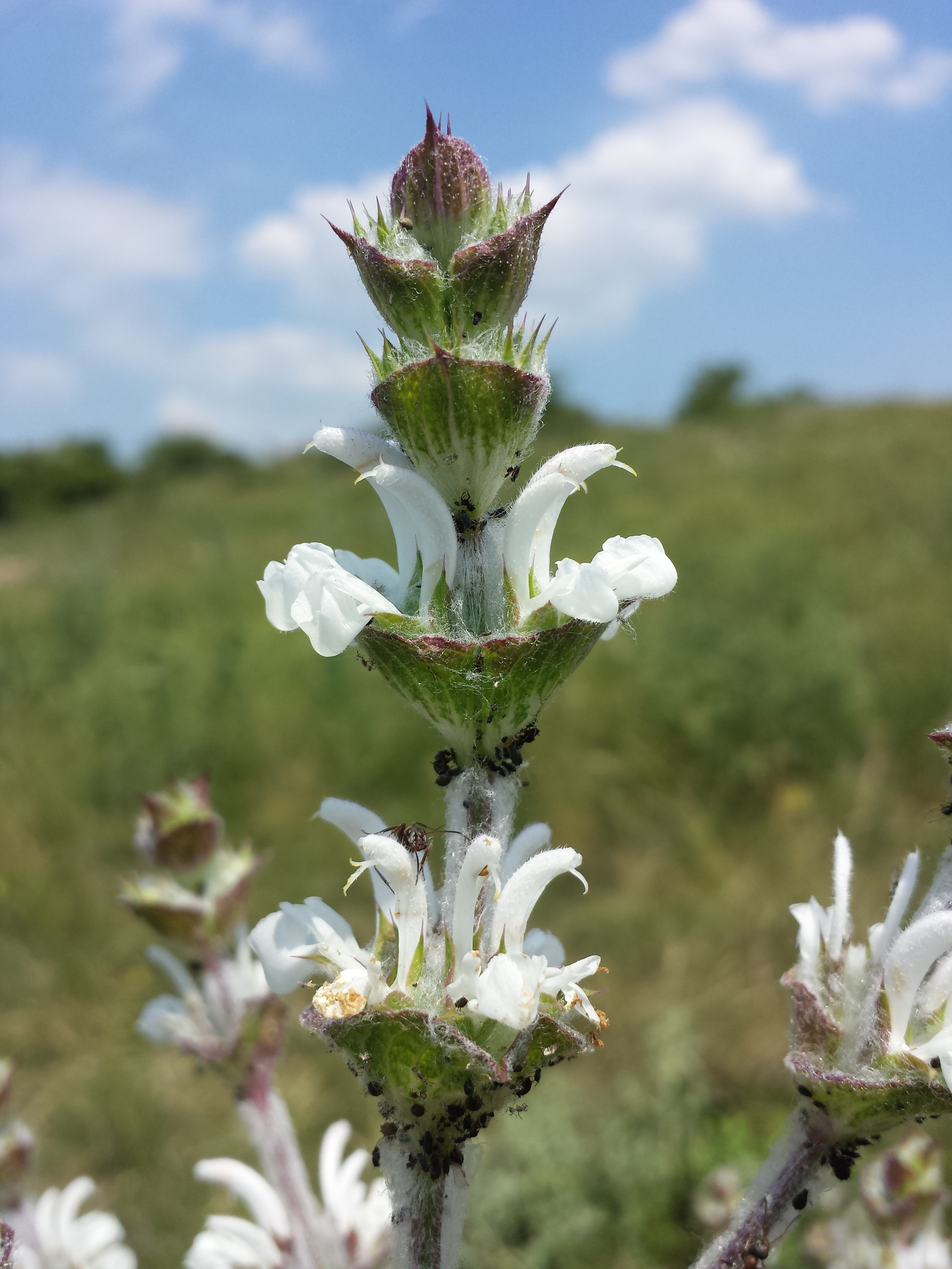 Inflorescence Taxonym: Salvia aethiopis ss Fischer et al. EfÖLS 2008 ISBN 978-3-85474-187-9; det. Gergely Király 2015-06-07 Location: Veszprém County, Hungary - ca. 200 m a.s.l. Habitat: dry grassland